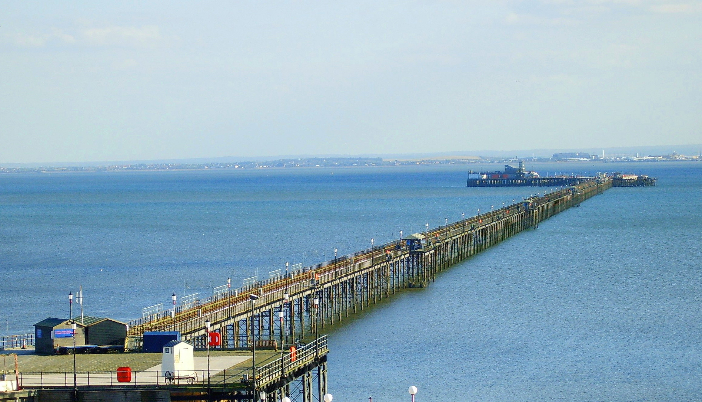 Southend Seafront Autumn 2007